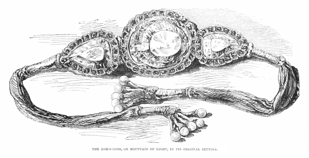 The Koh-i-noor diamond in its original setting